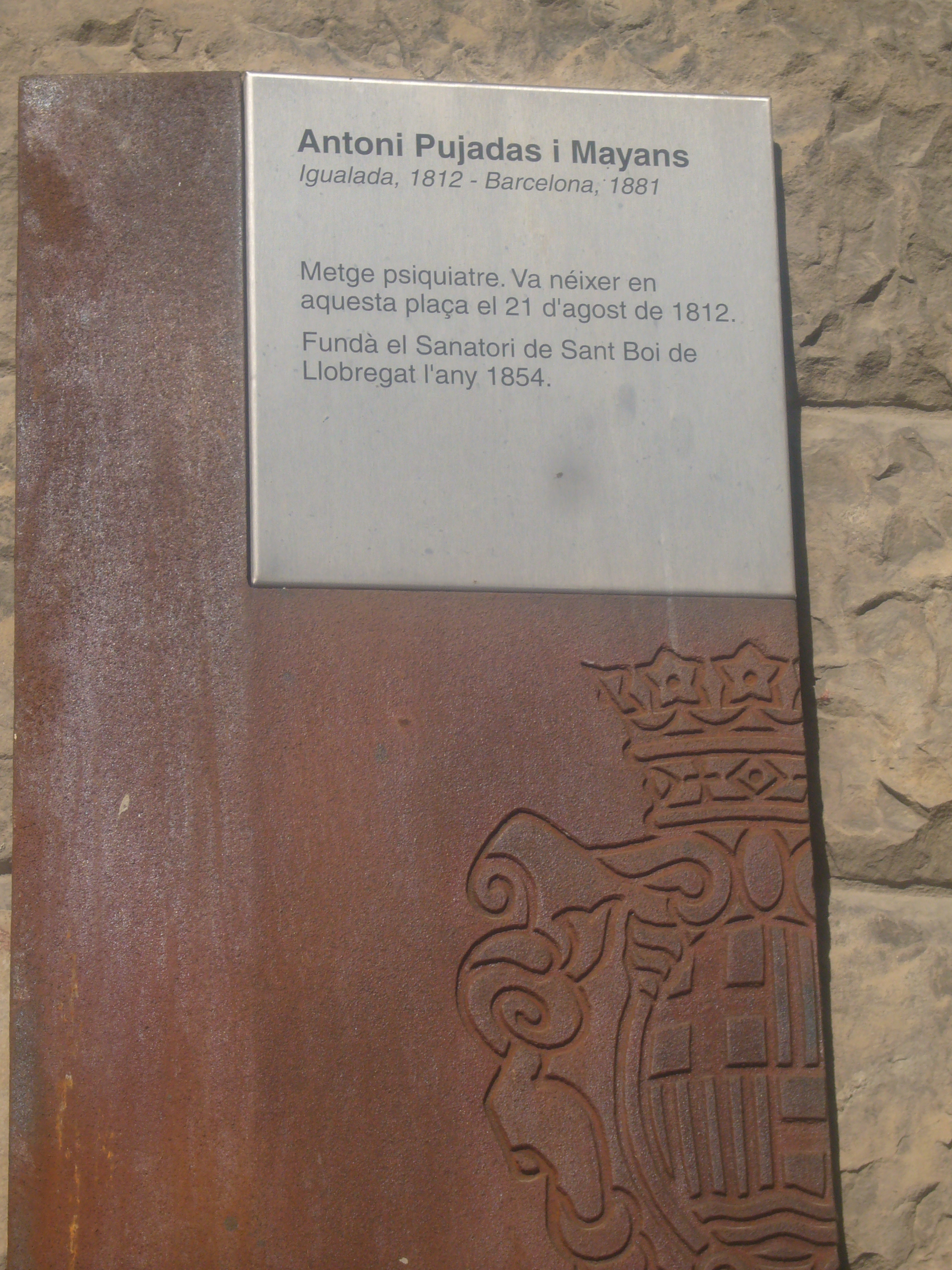 Plaque at the birth location of Antoni Pujadas i Mayans, in Igualada